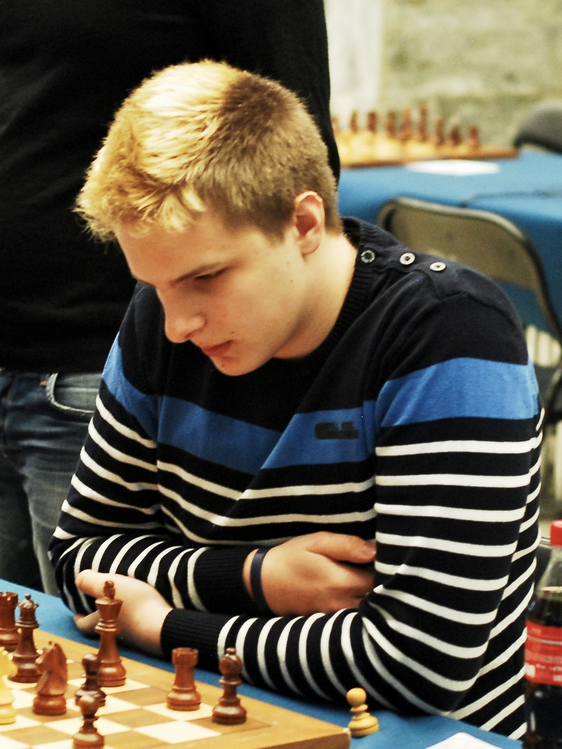 GM Richard Rapport, European Rapid Chess Championship, Warsaw 2012.